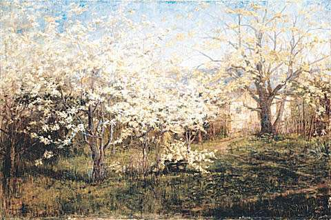 MayVale THE ORCHARD (SPRING AT MAYFIELD), c. 1904